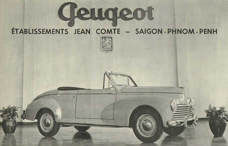 Pub pour la Peugeot 203 au Vietnam.